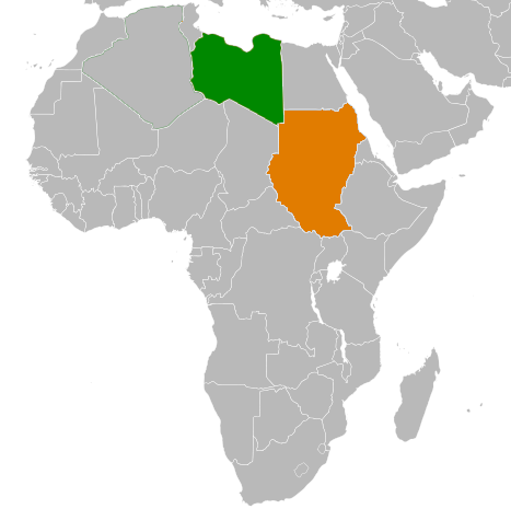 Sudan and Libya locator map (until 2010, bevor South Sudan became independent in 2011)